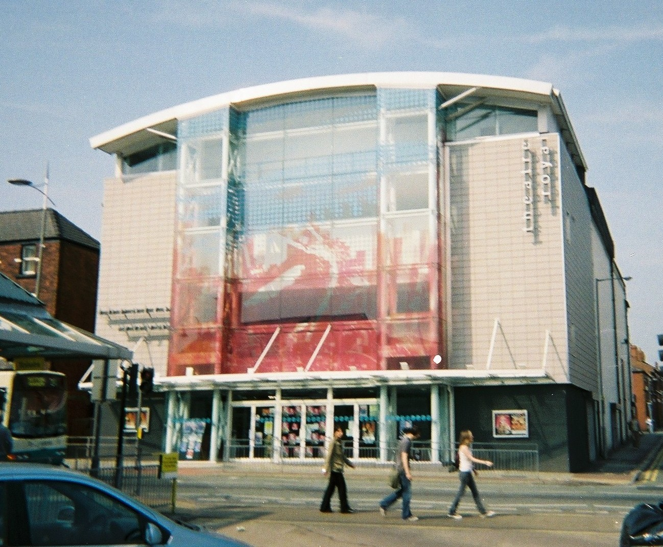 This is a photo of the present-day (2012) exterior of the Theatre Royal in St. Helens, Merseyside (originally a theatre designed by theatre architect Frank Matcham)